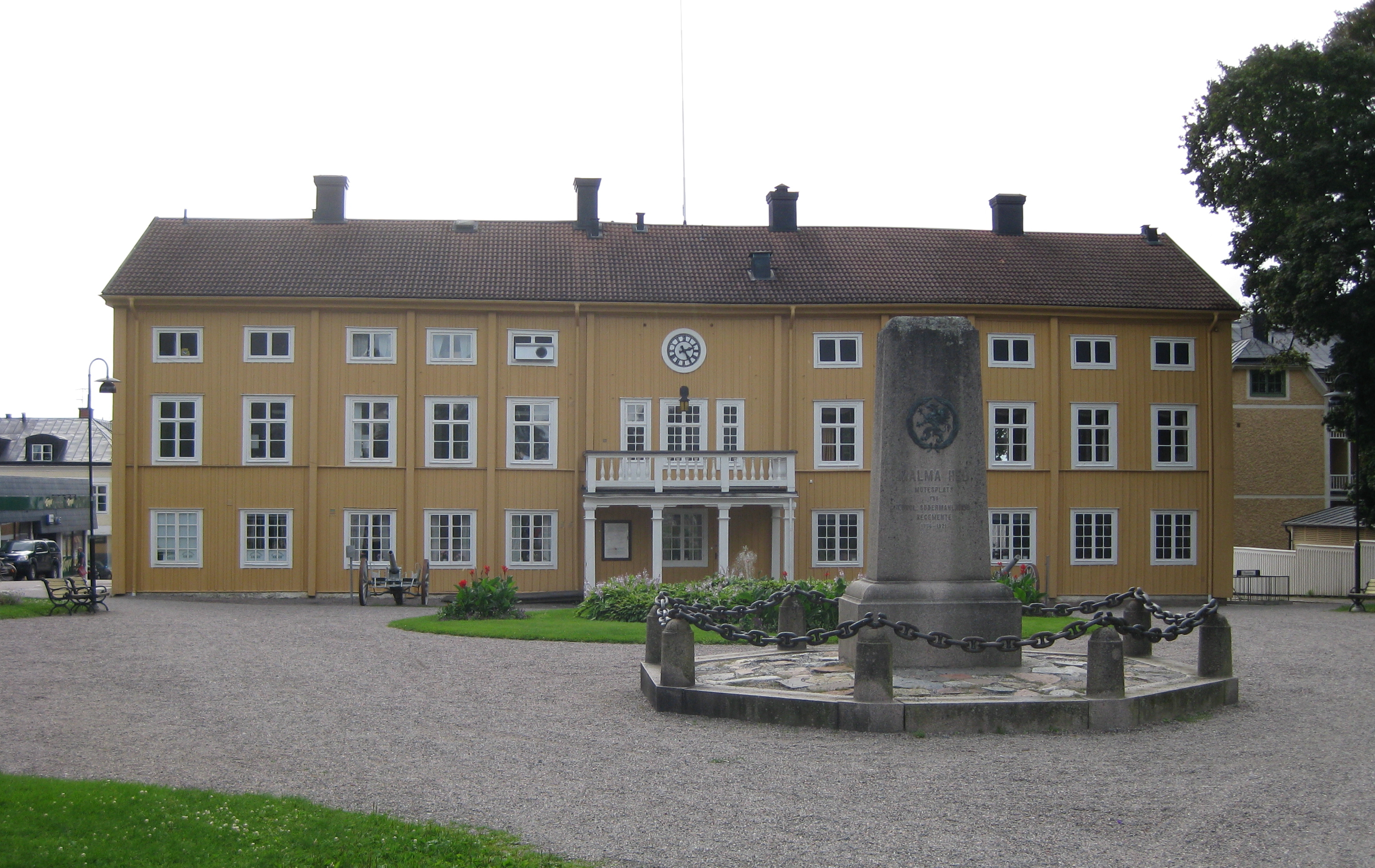 Malmköping town hall in Flen municipality, Sweden